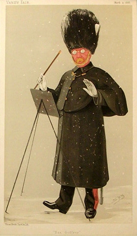 Caricature of Daniel Godfrey, bandmaster of the Grenadier Guards. Obituary in the Adelaide Advertiser 2 July 1903